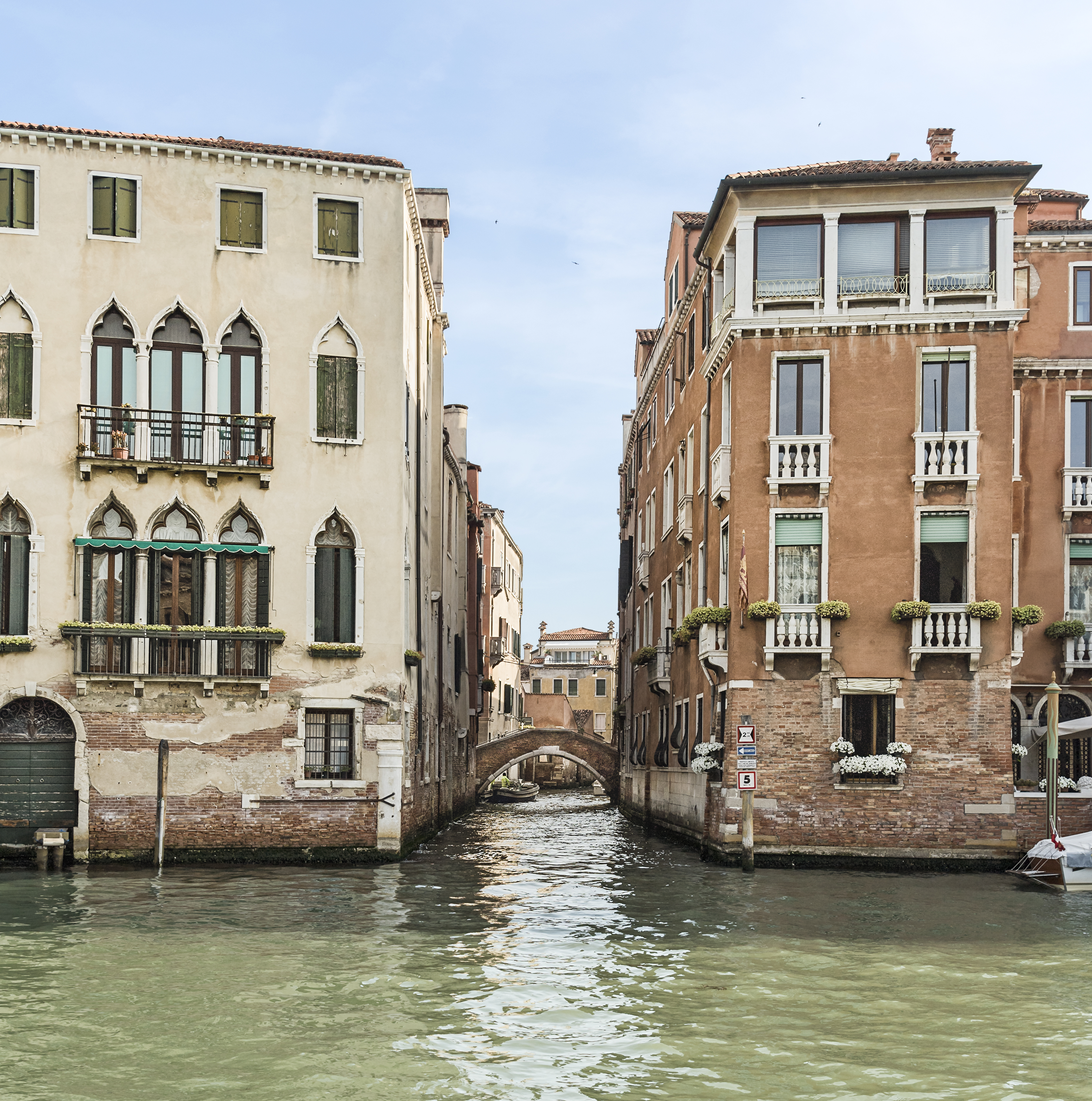 Opening of the Rio de San Marcuola on the Grand Canal Cannaregio Venice.